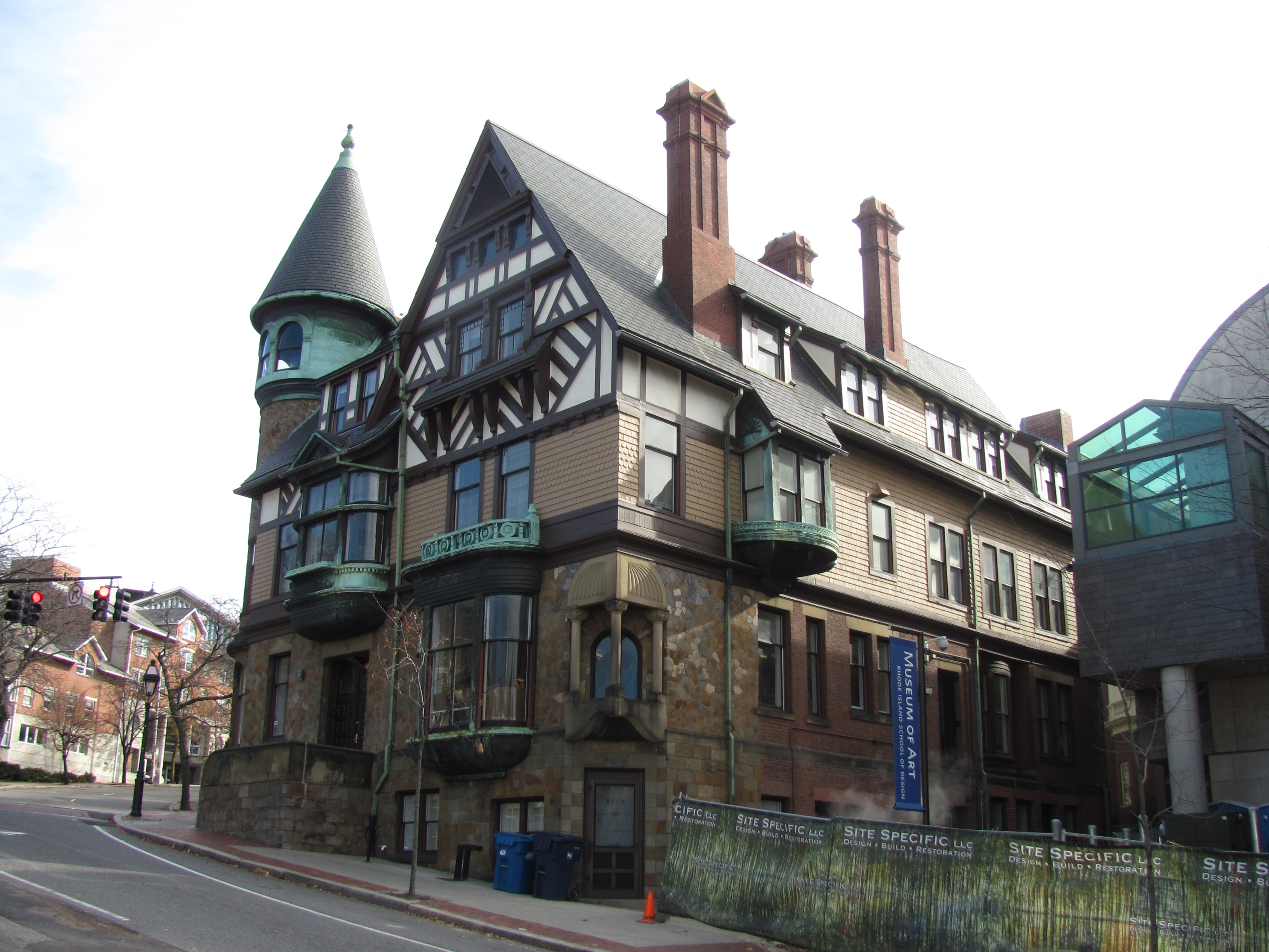 Dr. George W. Carr House, Providence Rhode Island - built in 1885